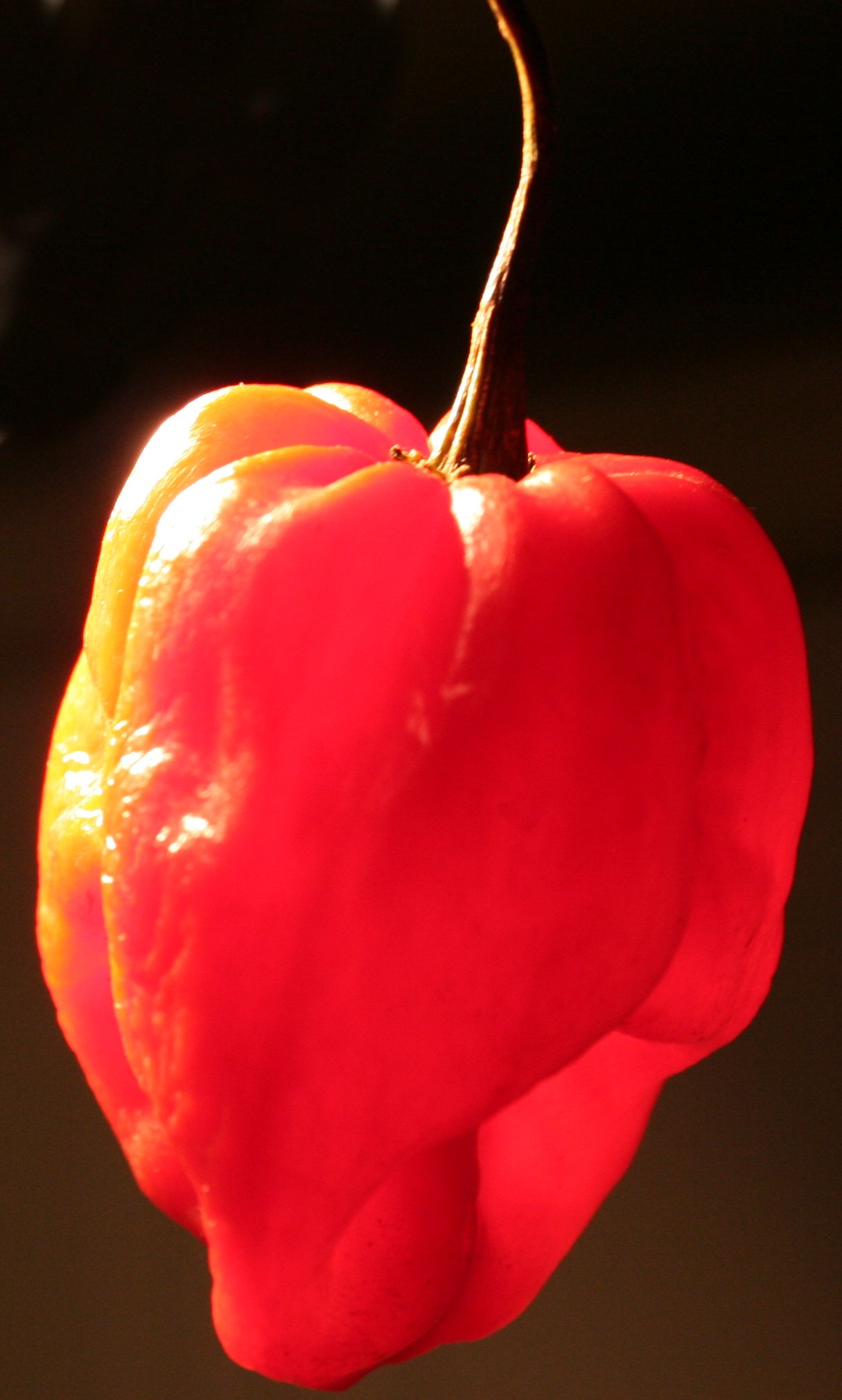 Photograph of a Scotch bonnet, a very hot chilli, similar to but not the same as a Habanero chilli. Photograph take by me, and 'shopped slightly to remove some background elements and some spots on the surface of the chilli itself.